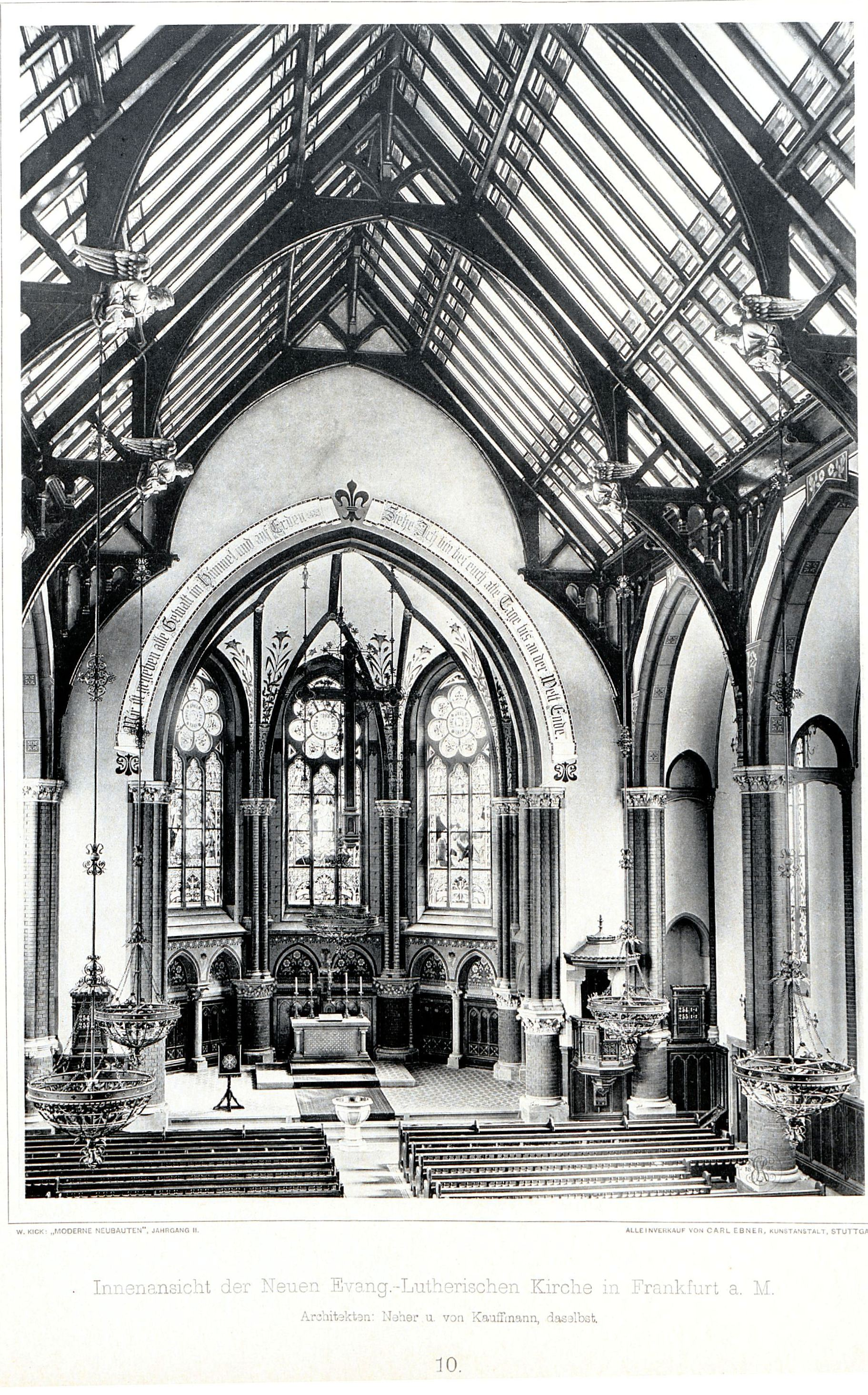 t